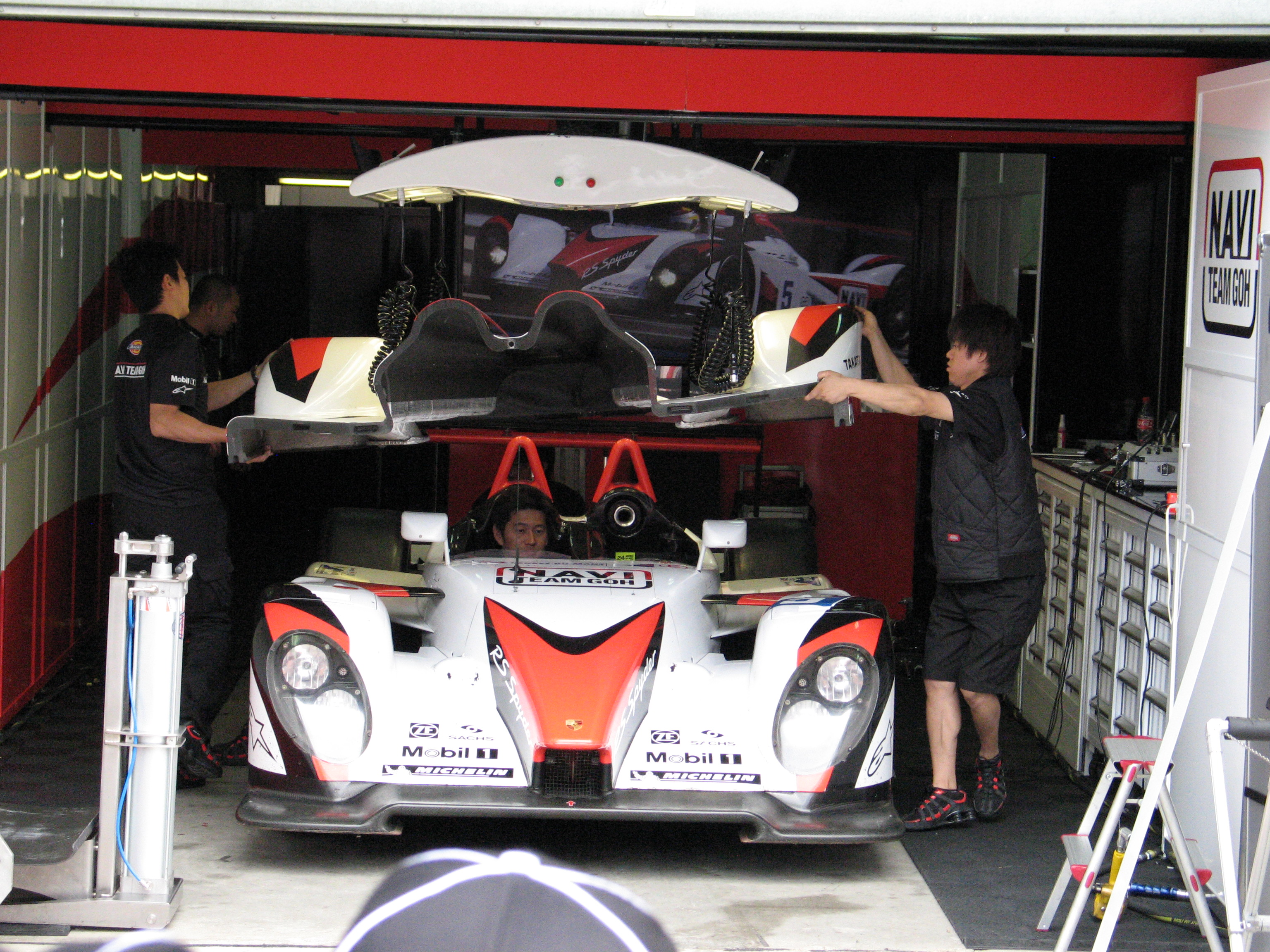 The Navi Team Goh Porsche RS Spyder at the 2009 24 Hours of Le Mans